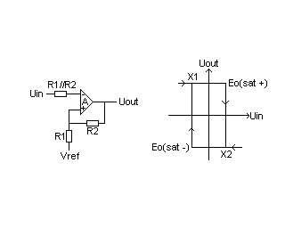 OP Comparator